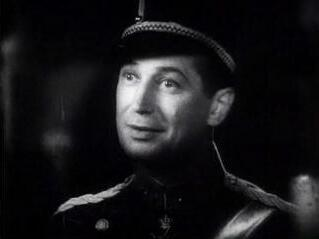 Cropped screenshot of Maurice Chevalier from the trailer for the film The Merry Widow